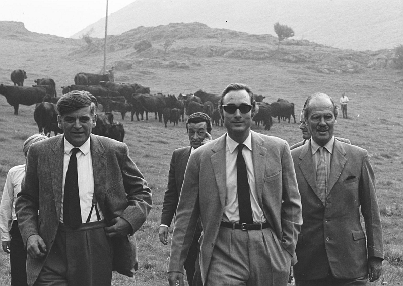 Photographs by Welsh photo journalist Geoff Charles Prince William of Gloucester visiting a farm near Tywyn